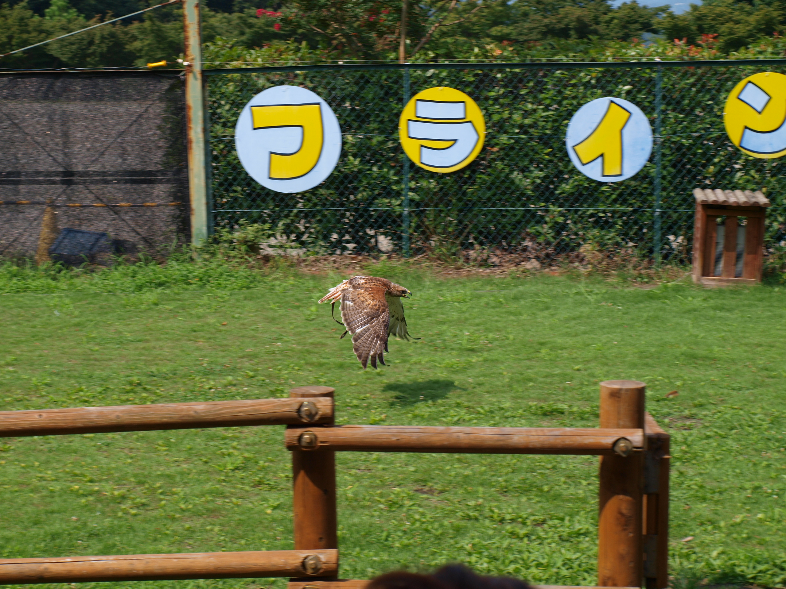 Flight show of Raptores. Gunma Safari Park. Tomioka-city, Gunma-pref, Japan.